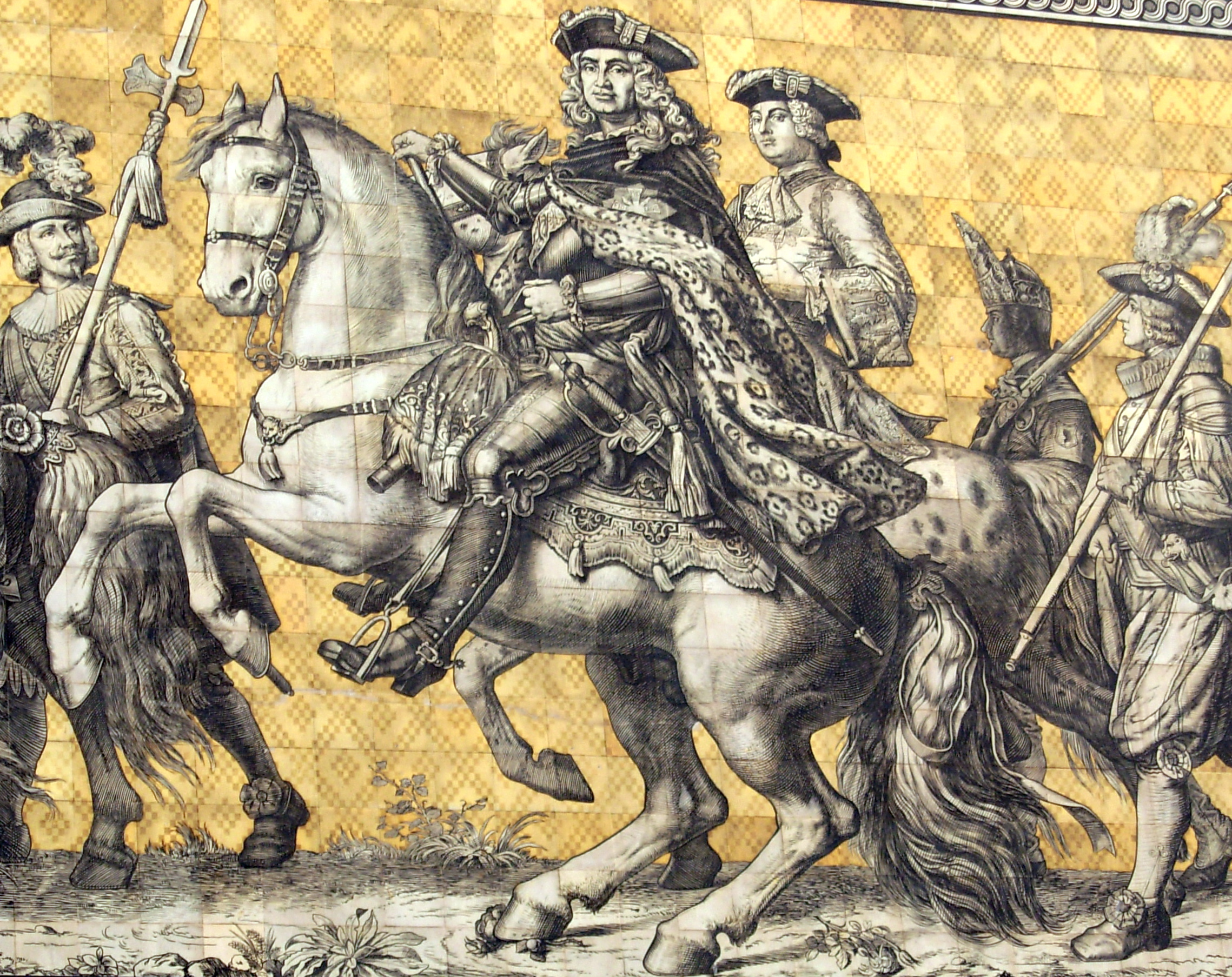 August II the Strong (mosaik in Dresden)/Augustas II-asis (mozaika, Drezdenas)